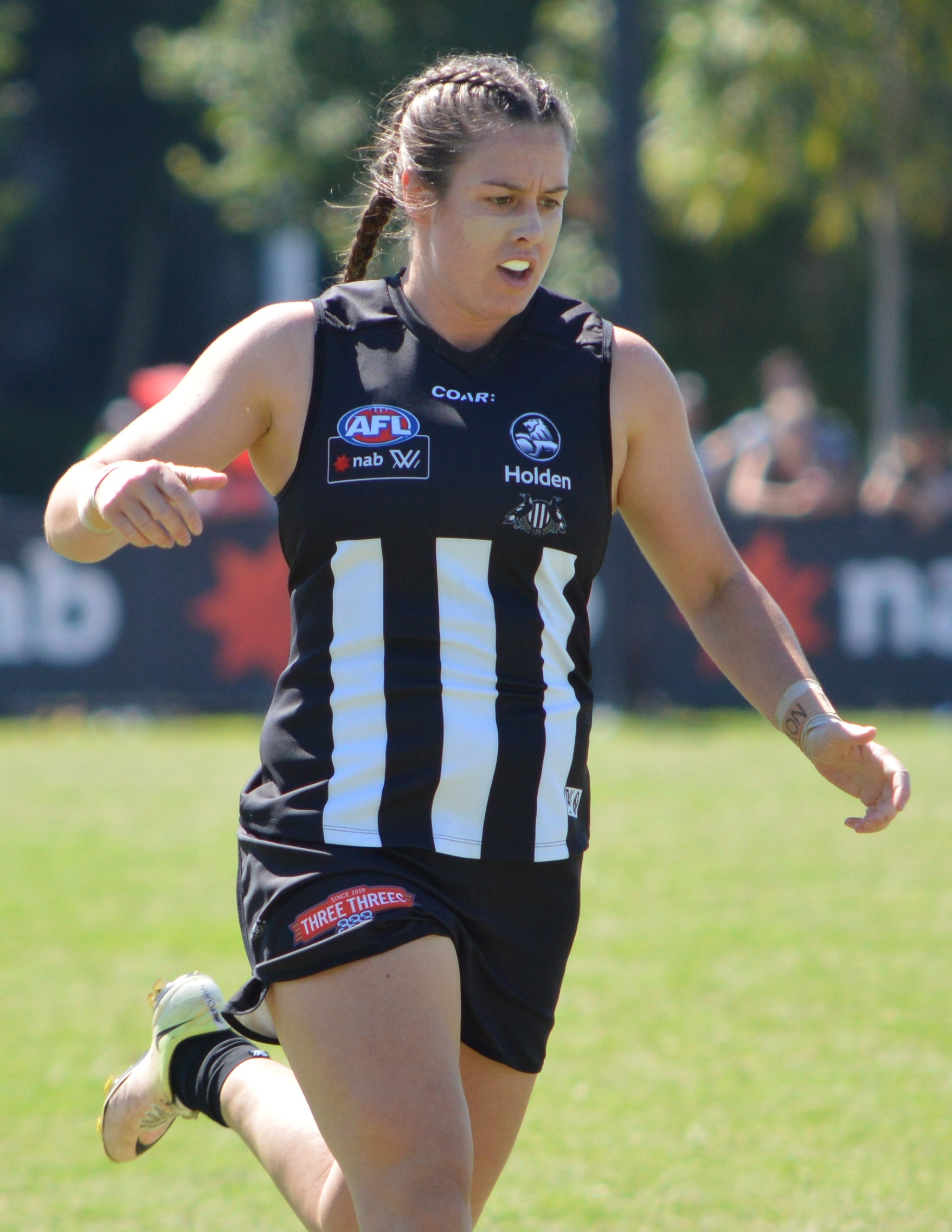 Caitlyn Edwards during the round 7, 2017 AFL Women's match between Collingwood and Adelaide.